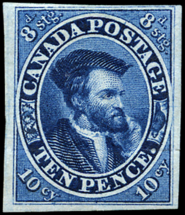 Postage stamp of Canada, Jacques Cartier, 10 pence, 1855, scott#7